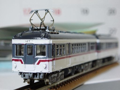 Example of uniting and putting up kit made of plastic of model train set.